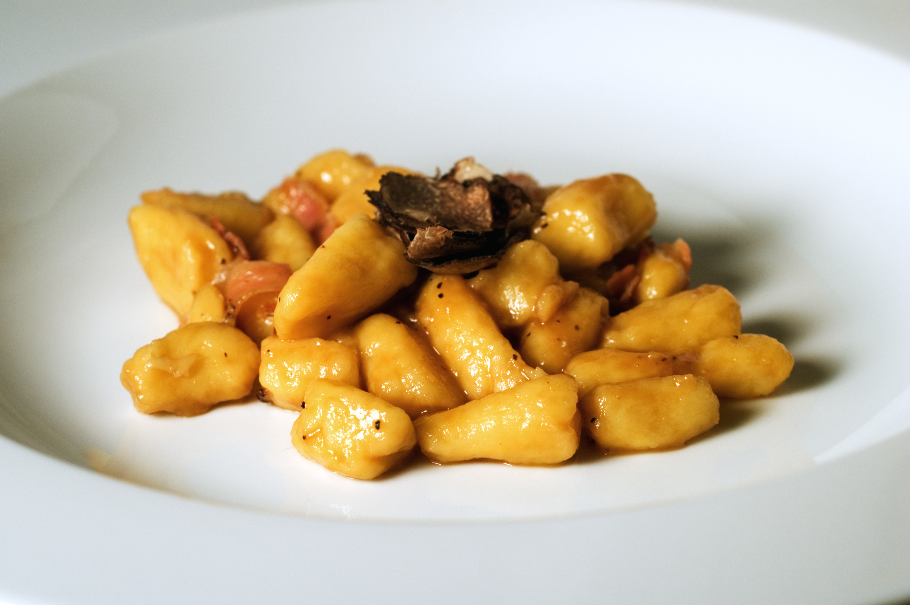 Gnocchi with chicken essence, pancetta and fresh Périgord truffle.